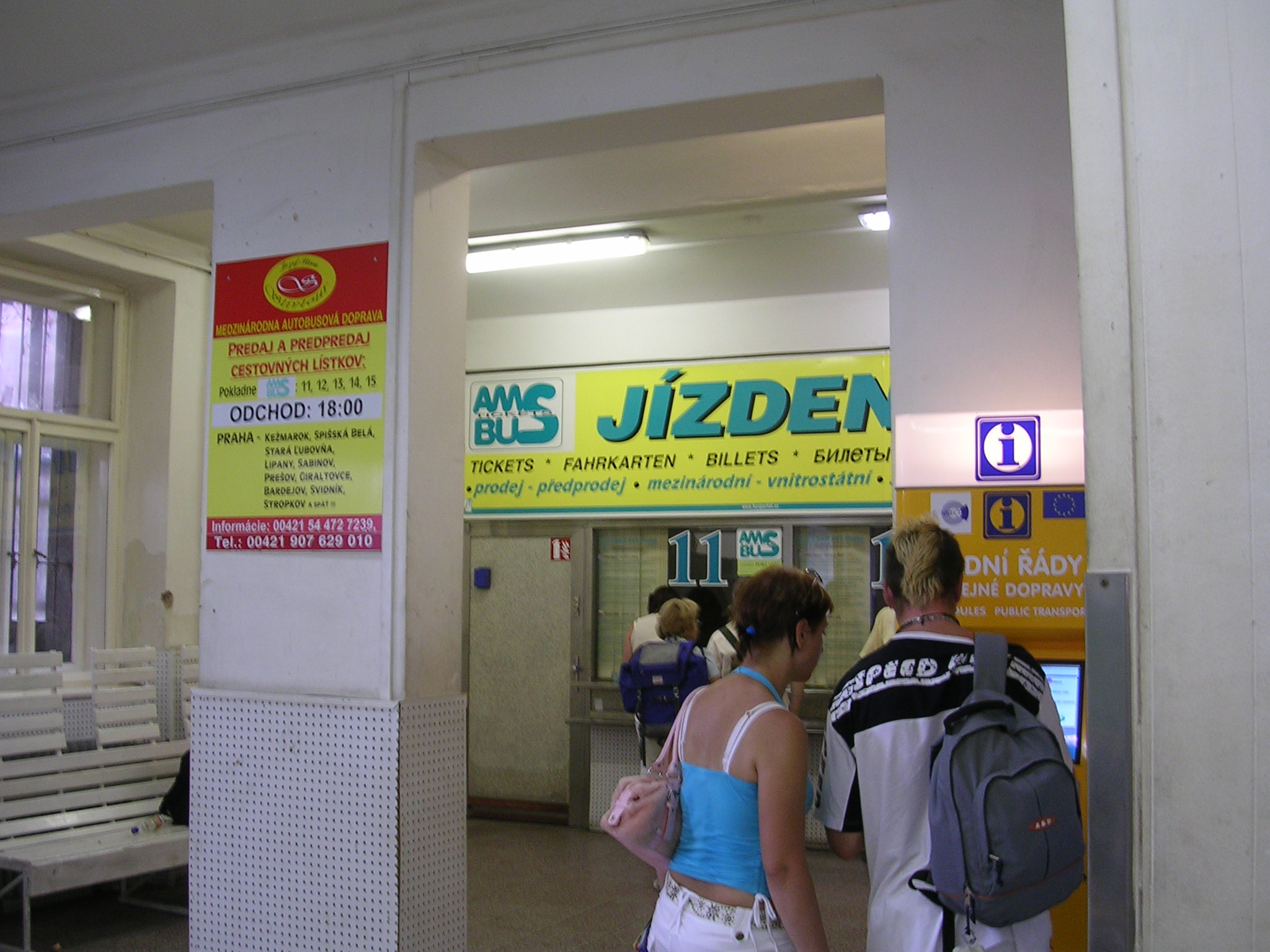 Karlín, Prague, the Czech Republic. Florenc Central Bus Station.